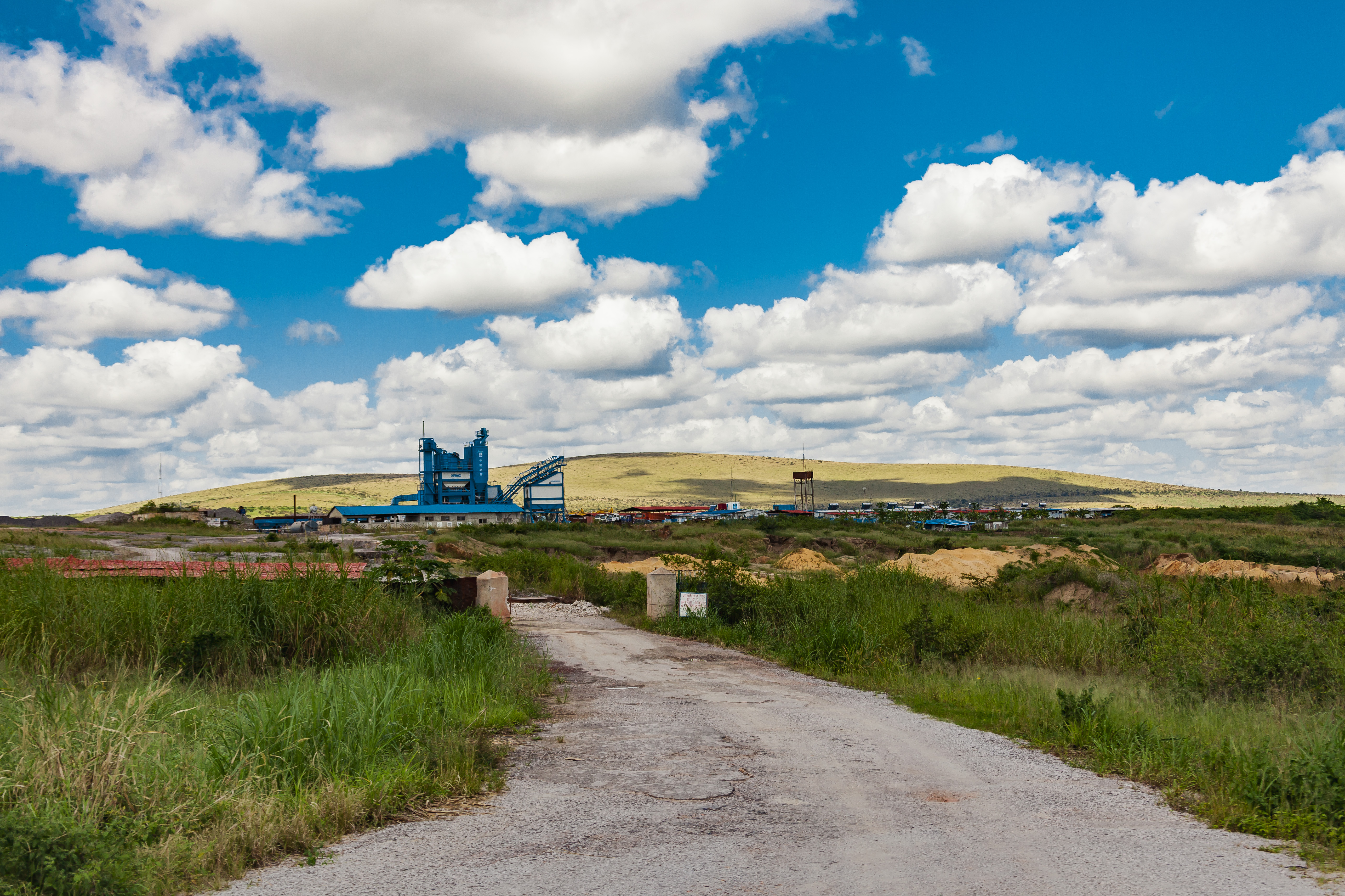 Chinese cement works on the national road Number 1 Brazzzaville-Pointe-Noire (Congo) This is an image with the theme "Africa on the Move or Transport" from: Congo